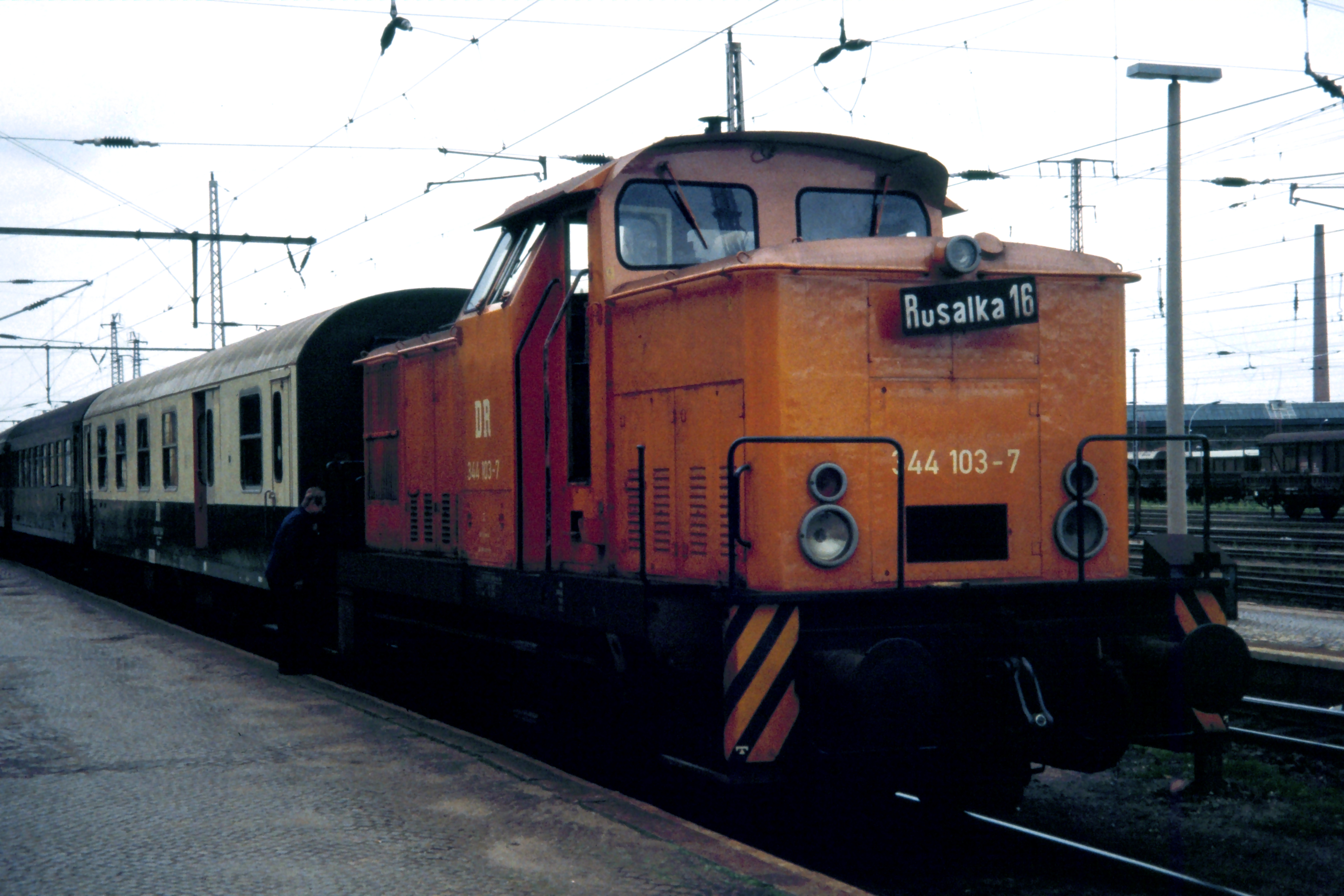 Diesel locomotive DB Class 344 in Wittenberge train station.